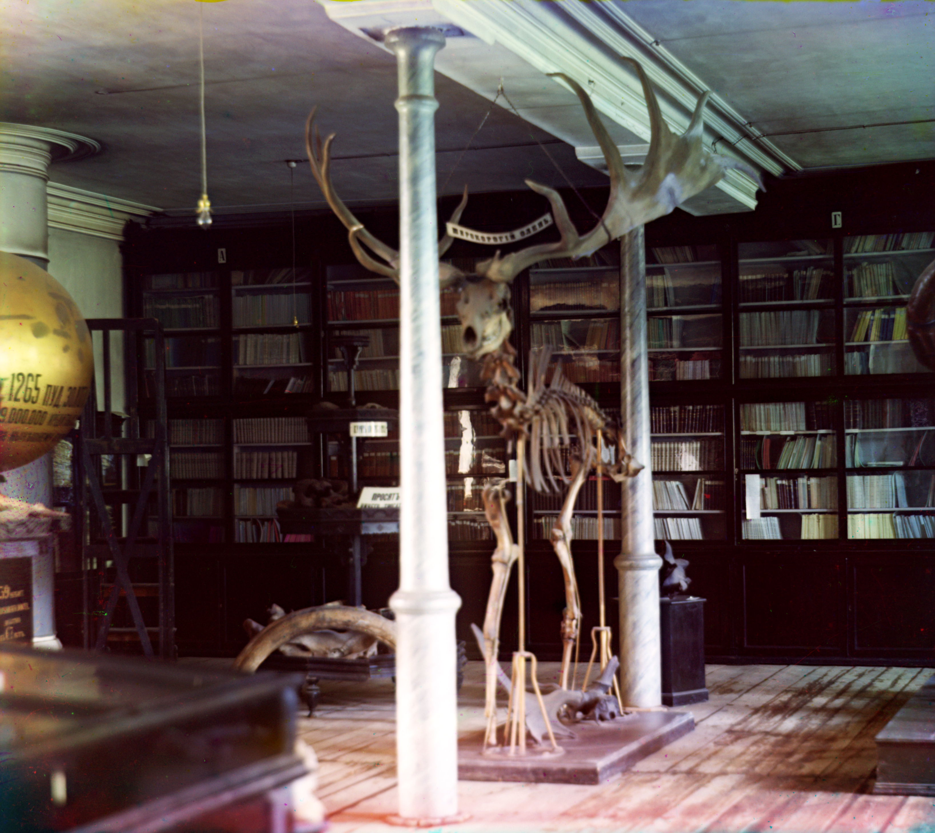 Skeleton of large-horned stag in the museum of the city of Ekaterinburg